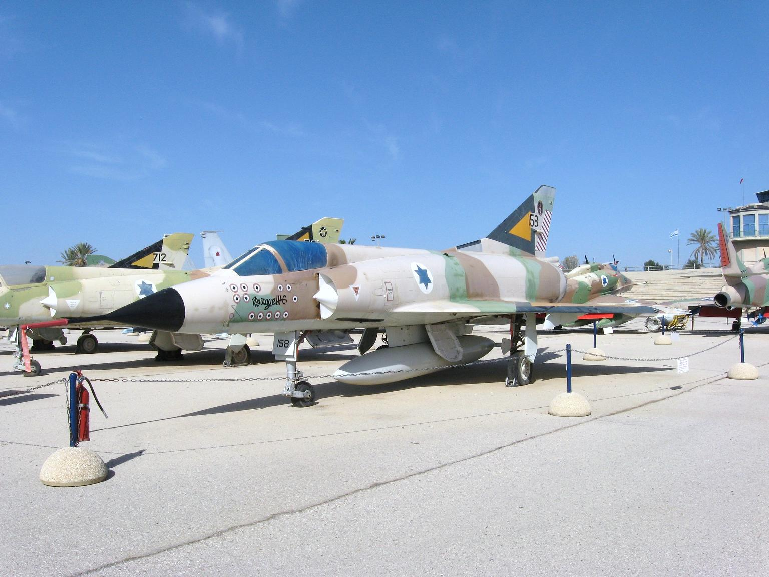 Israeli Air Force Mirage IIICJ 158 at the Israeli Air Force Museum in Hatzerim. Bears 13 kills markings and the colours of 101 Squadron.